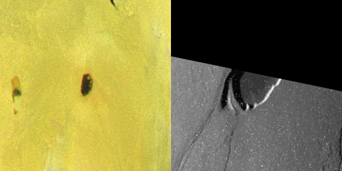 Two of the highest resolution images of Tawhaki Patera, a volcano on Jupiter's moon Io. The image on the left is the highest resolution color image of Tawhaki. It was acquired in July 1999 and has a resolution of 1.3 kilometers per pixel. The image on the right is the highest resolution clear filter image of Tawhaki. It was acquired on November 25, 1999 and has a resolution of 260 meters per pixel. The volcano is cut off by the edge of the image mosaic. North is up for both frames.